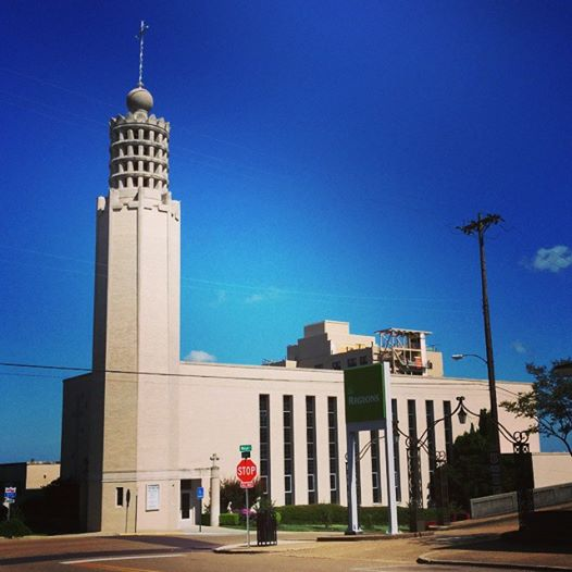 Stunning church, built in 1957